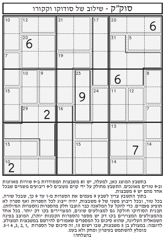 suka"k (sudoku+kakuro)